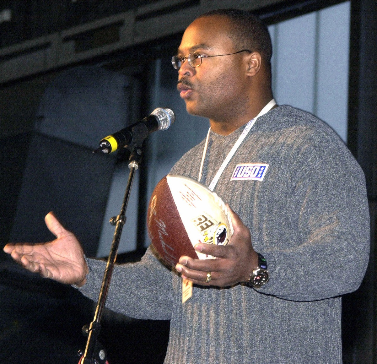 National Football League Hall of Fame star Mike Singletary addresses the audience at Ramstein Air Base, Germany, during the Secretary of Defense Holiday Show 2000, on December 17th, 2000.